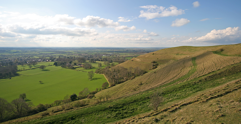 View of Hambledon Hill and the Blackmore Vale, Dorset, England, UK.